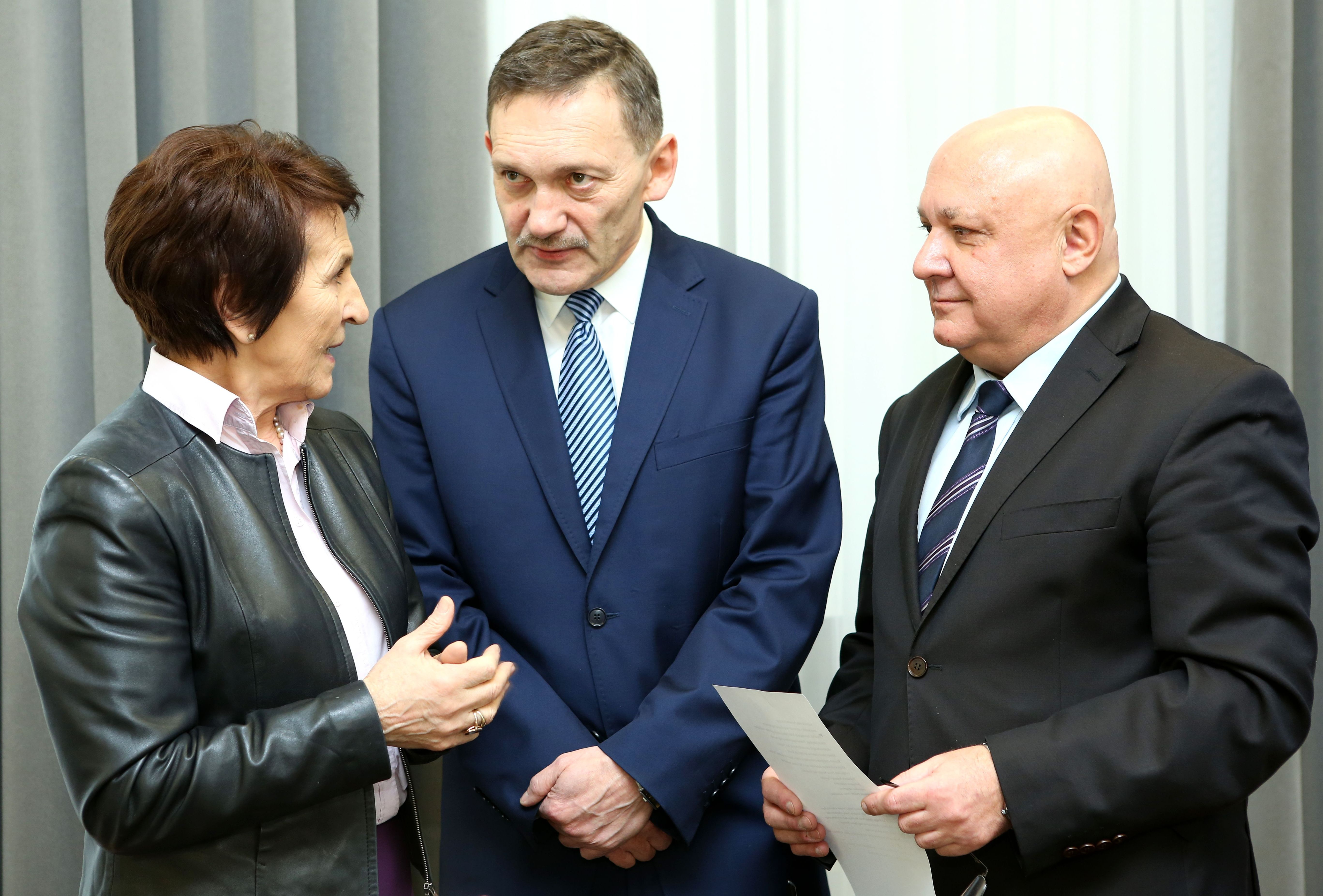 Stanisława Prządka, Edward Zalewski and Piotr Zientarski during the conference "Model and role of public prosecutor's office in the system of state organs" in the Polish Senate